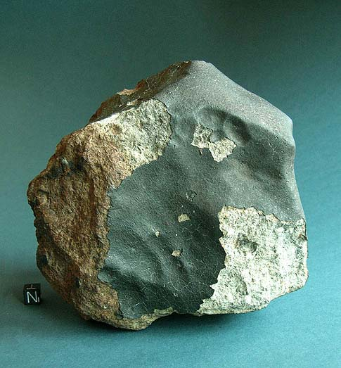 Type LL6 chondrite stone meteorite Northwest Africa 778 (El Mahbes/Al Mahbes), NomCom publication pending.